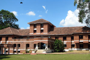 Photo of KFRI